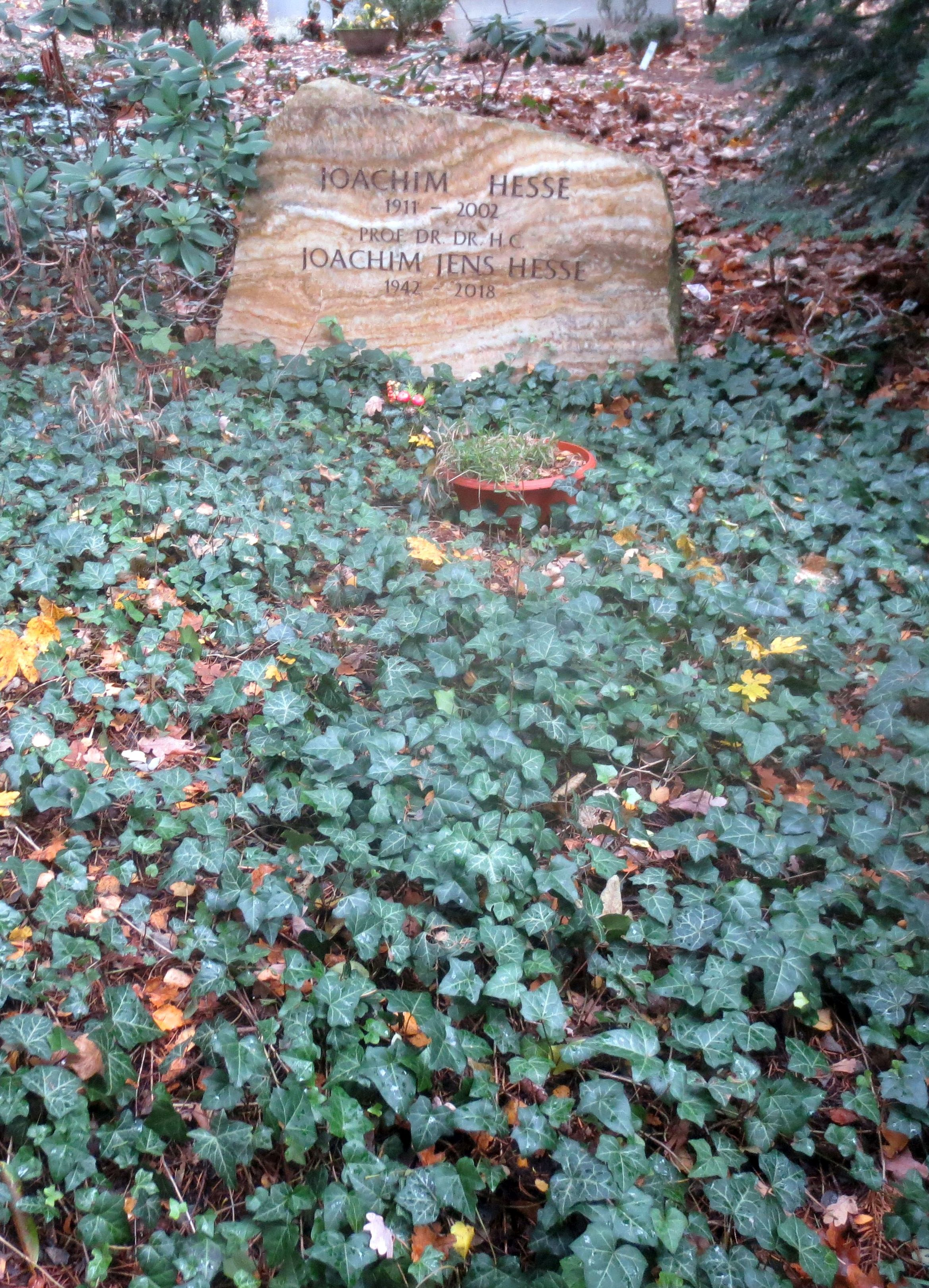 Grave of the political and administrative scientist Joachim Jens Hesse (1942-2018) on the Friedhof Heerstraße cemetery in Berlin-Westend.